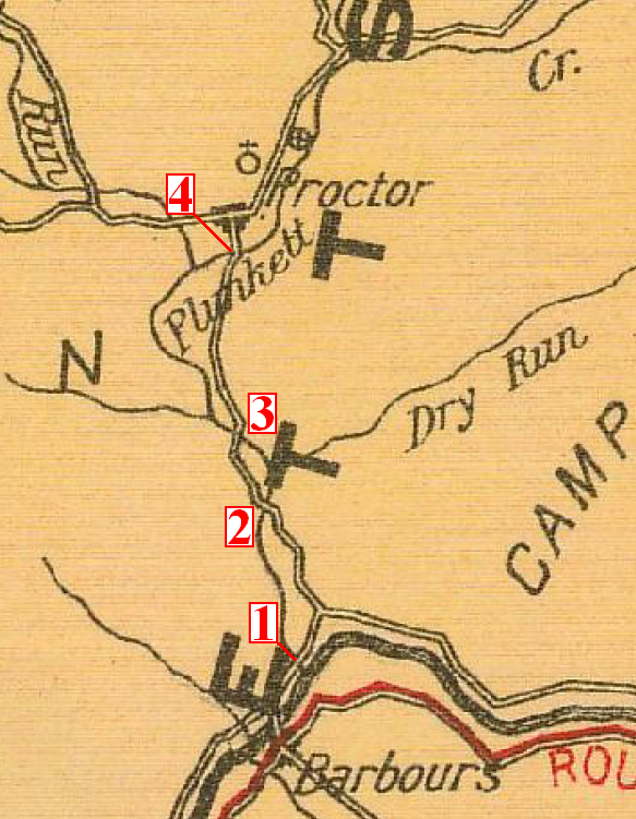 Section of the 1916 Pennsylvania State Highway Map of Lycoming County, showing Plunketts Creek, the villages of Barbours and Proctor, and the four bridges over the creek.